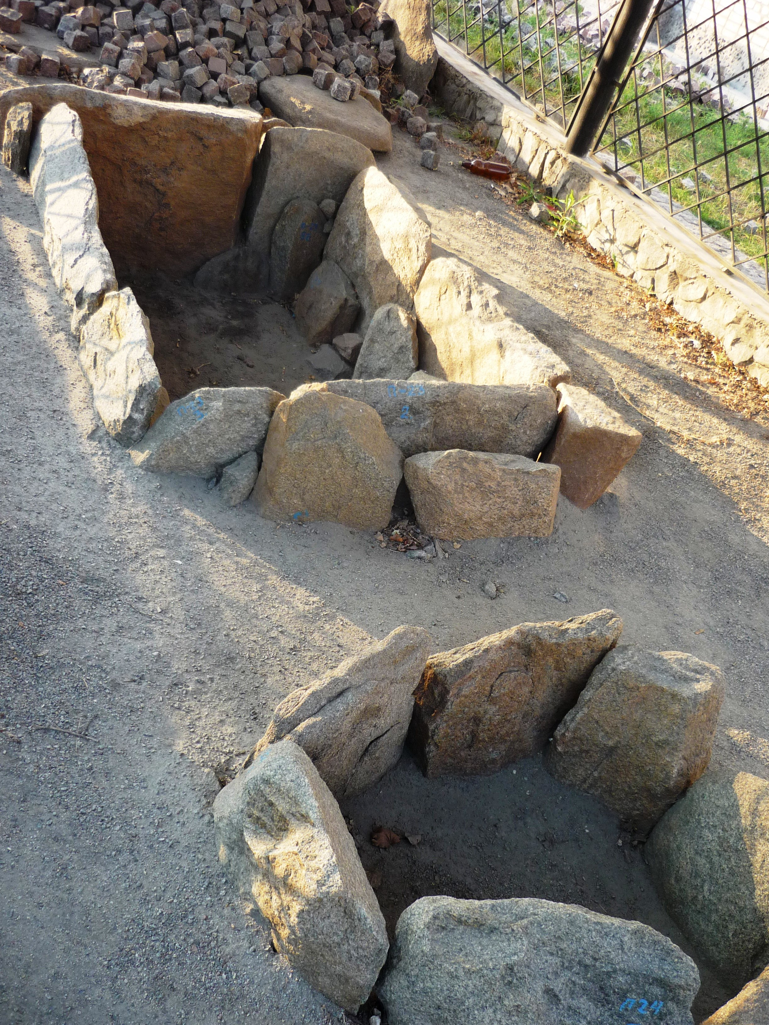 Horishni Plavni, Poltava Region, Ukraine